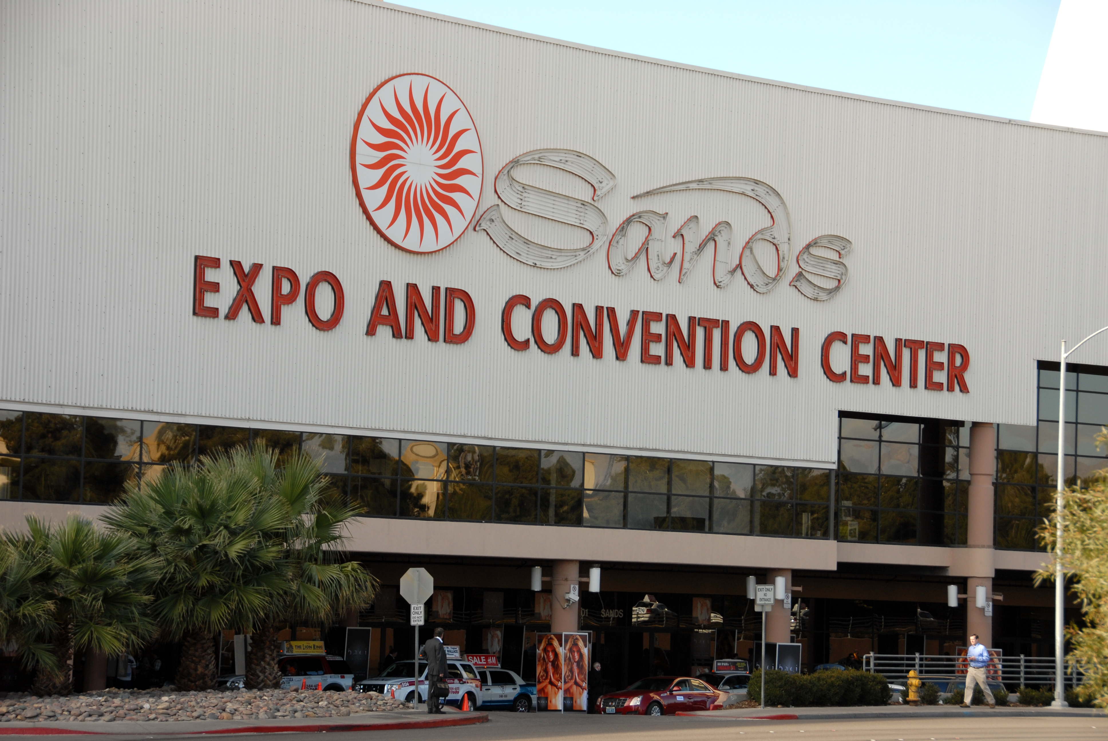 Sands Expo and Convention Center main entrance, Las Vegas, Nevada, Jan. 7, 2009 - Photo by Glenn Francis of